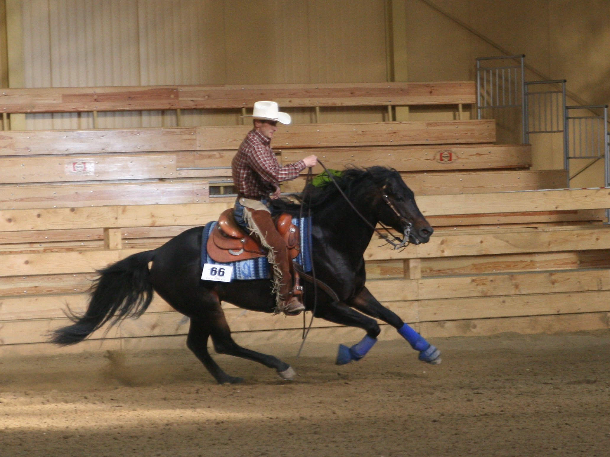 Aleksander Jarmula, polish champion in reining, on Roleski 4 Spins 2008 Show.